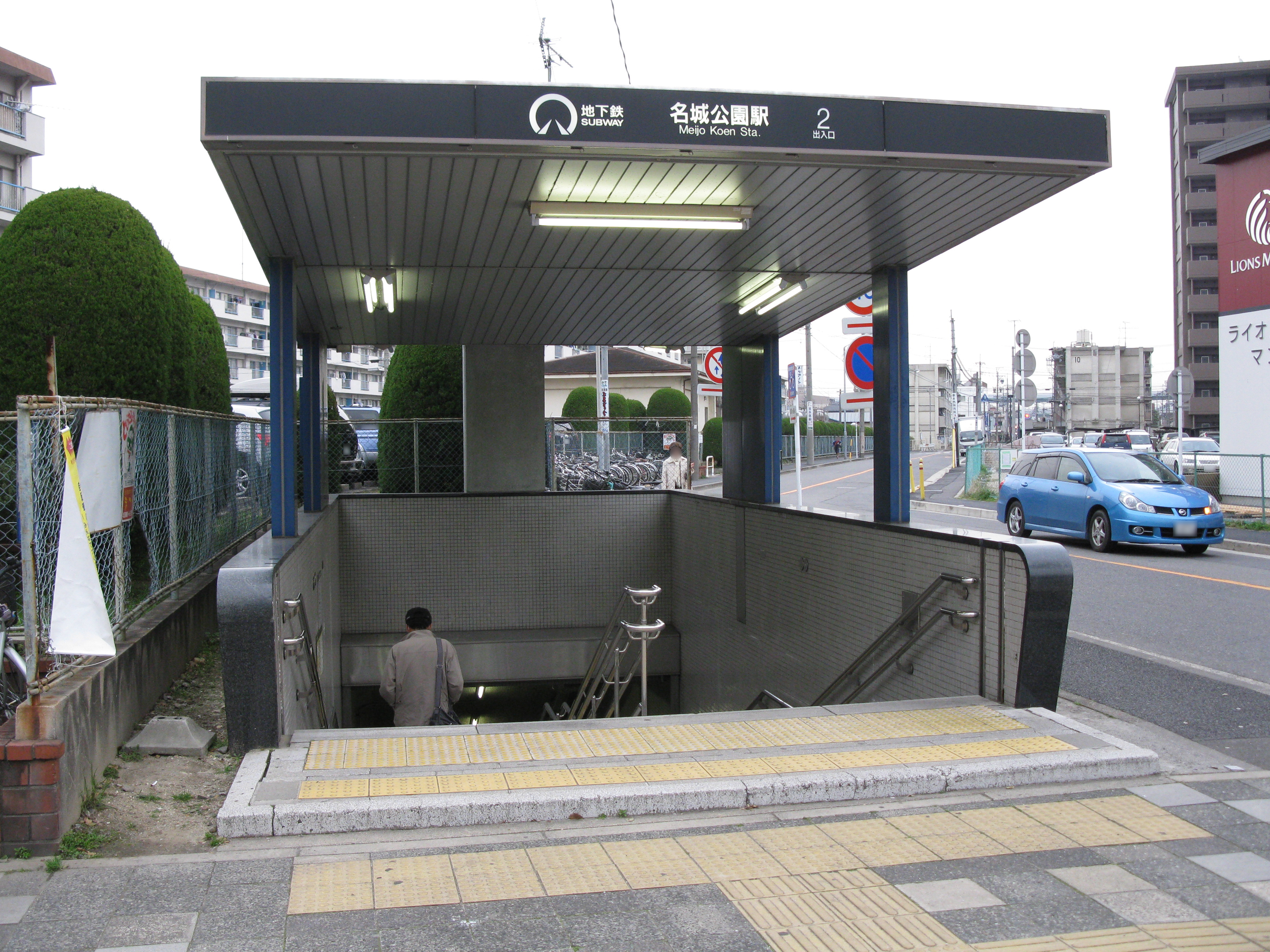 Meijō Kōen Station no.2 entrance (Nagoya Municipal Subway Meijō Line)